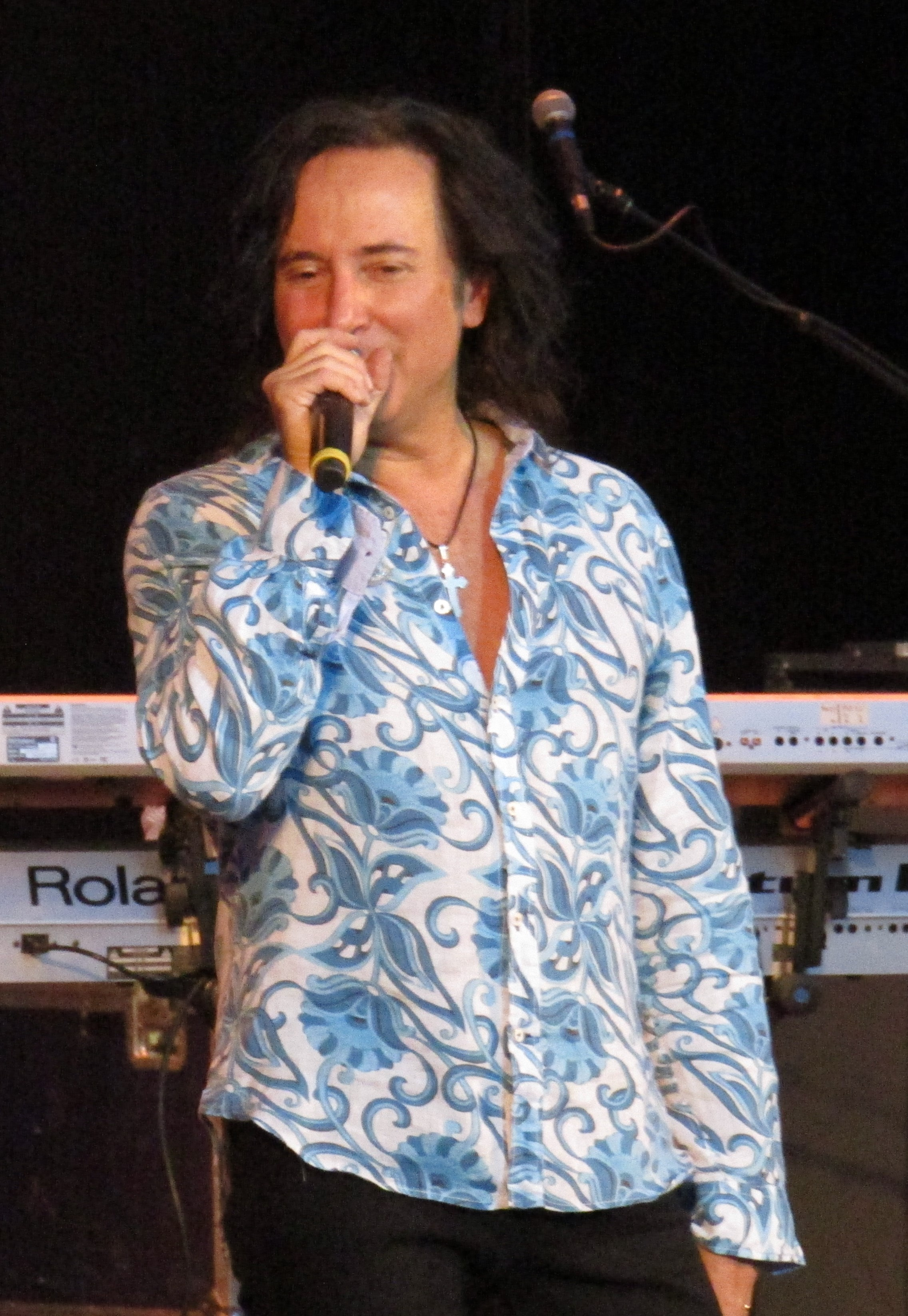 Steve Augeri performing at the SCERA Shell Outdoor Theatre in Orem, Utah.